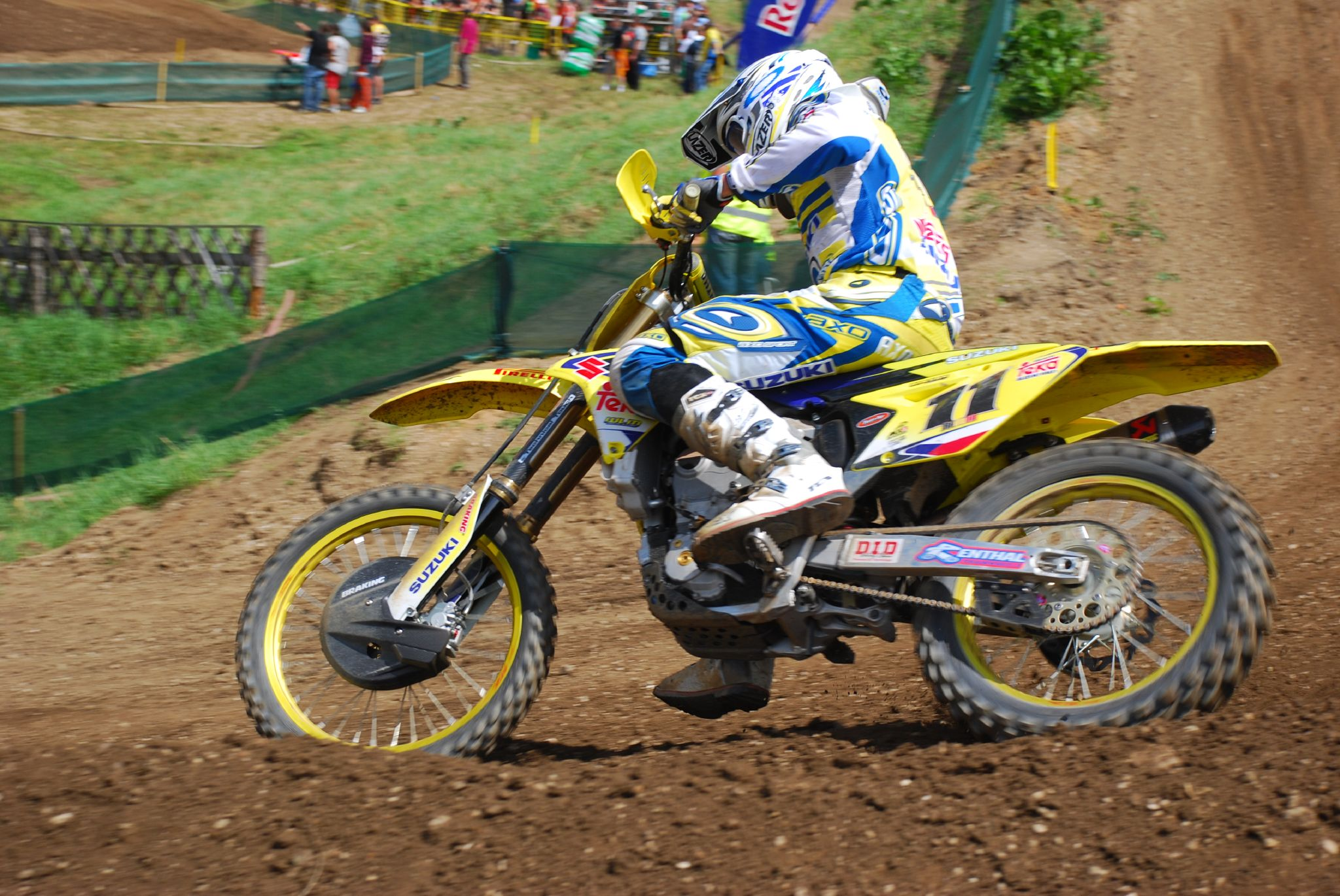 Steve Ramon on his Suzuki in Loket (2008)